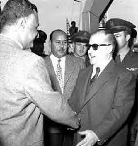 United Arab Republic Vice President Nur al-Din Kahala (right) shaking hands with President Gamal Abdel Nasser as he arrives in Syria for a countrywide tour